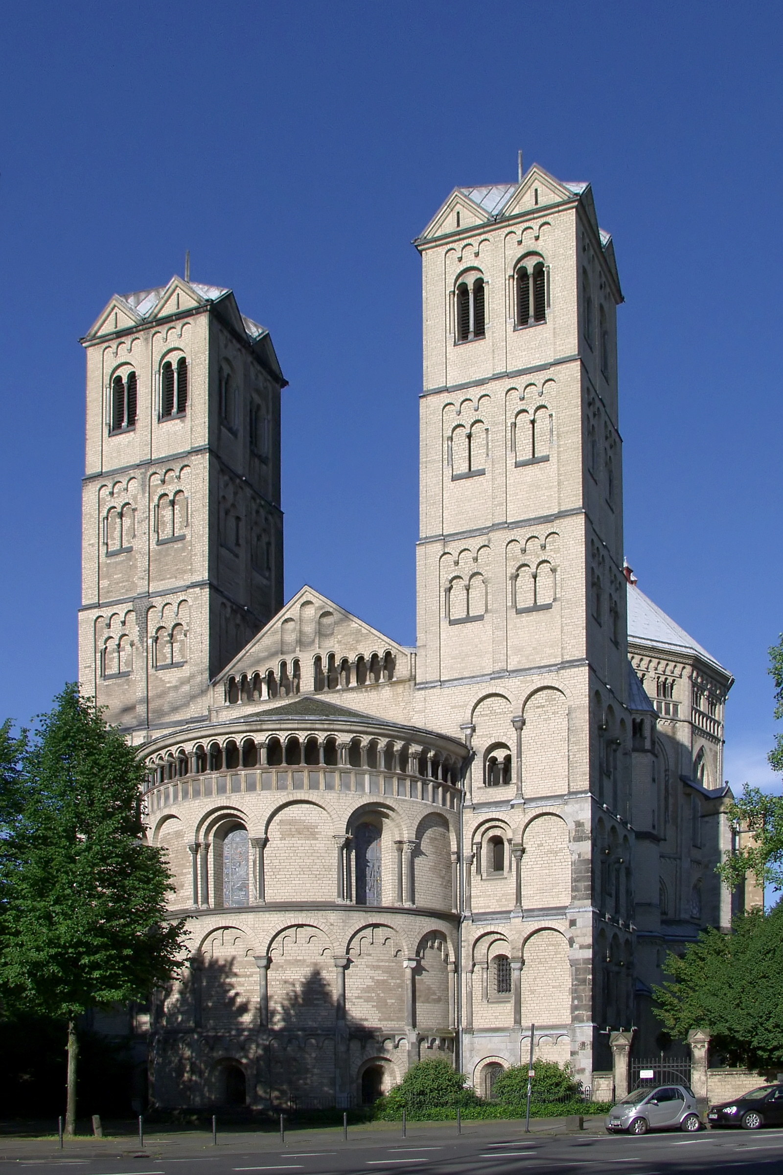 St. Gereon, Cologne. View from east This is a photograph of an architectural monument.